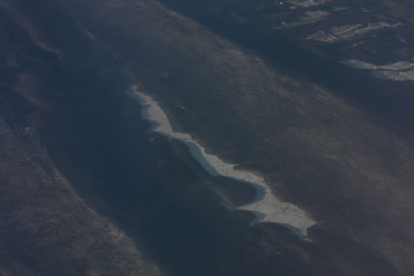 Oblique air photo of Sleepy Creek Lake, West Virginia, while it was frozen, Jan. 17, 2009. Facing southwest.